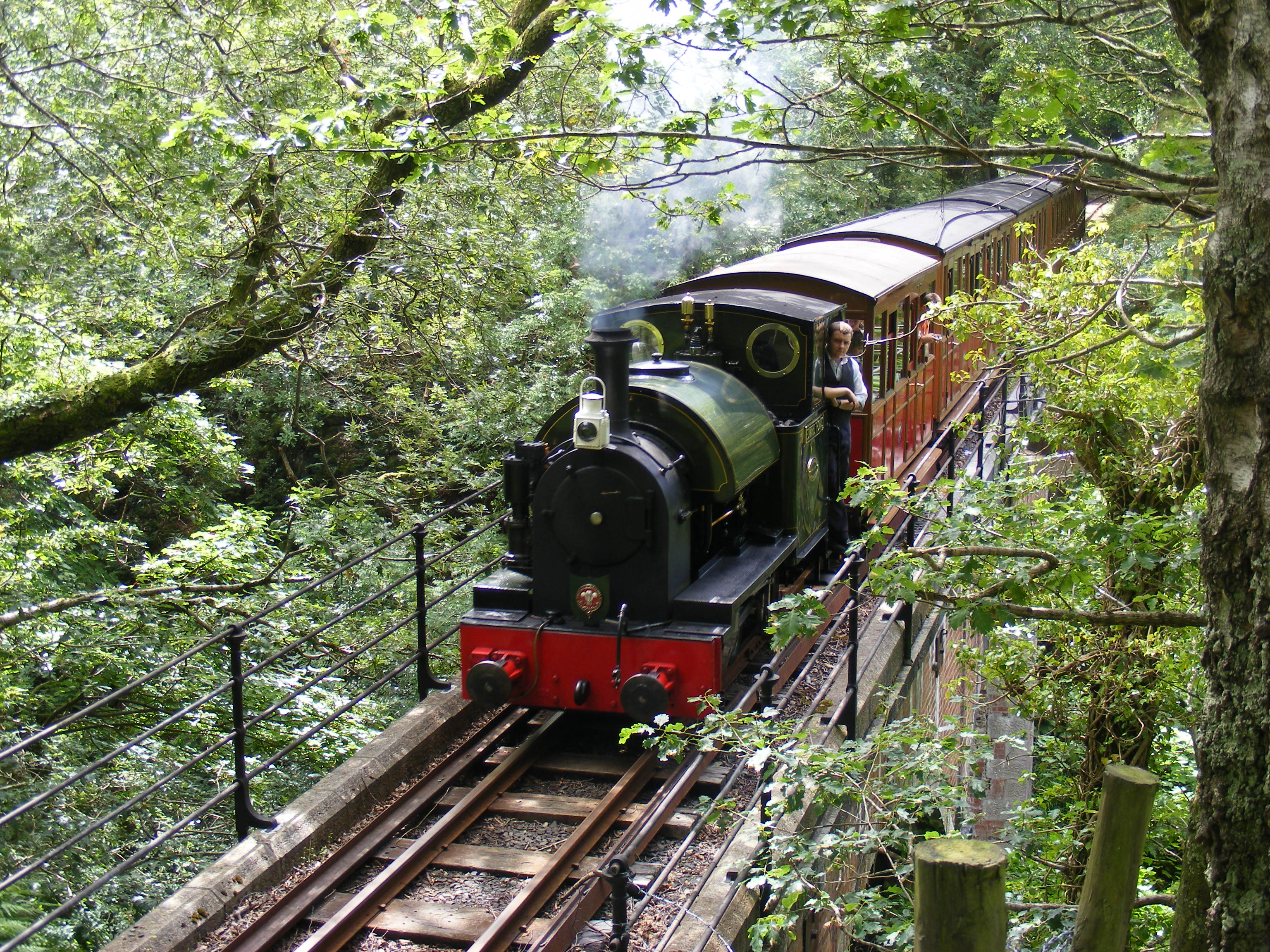 Train with engine Edward Thomas crosses the Dolgoch viaduct on the Talyllyn Railway, Wales